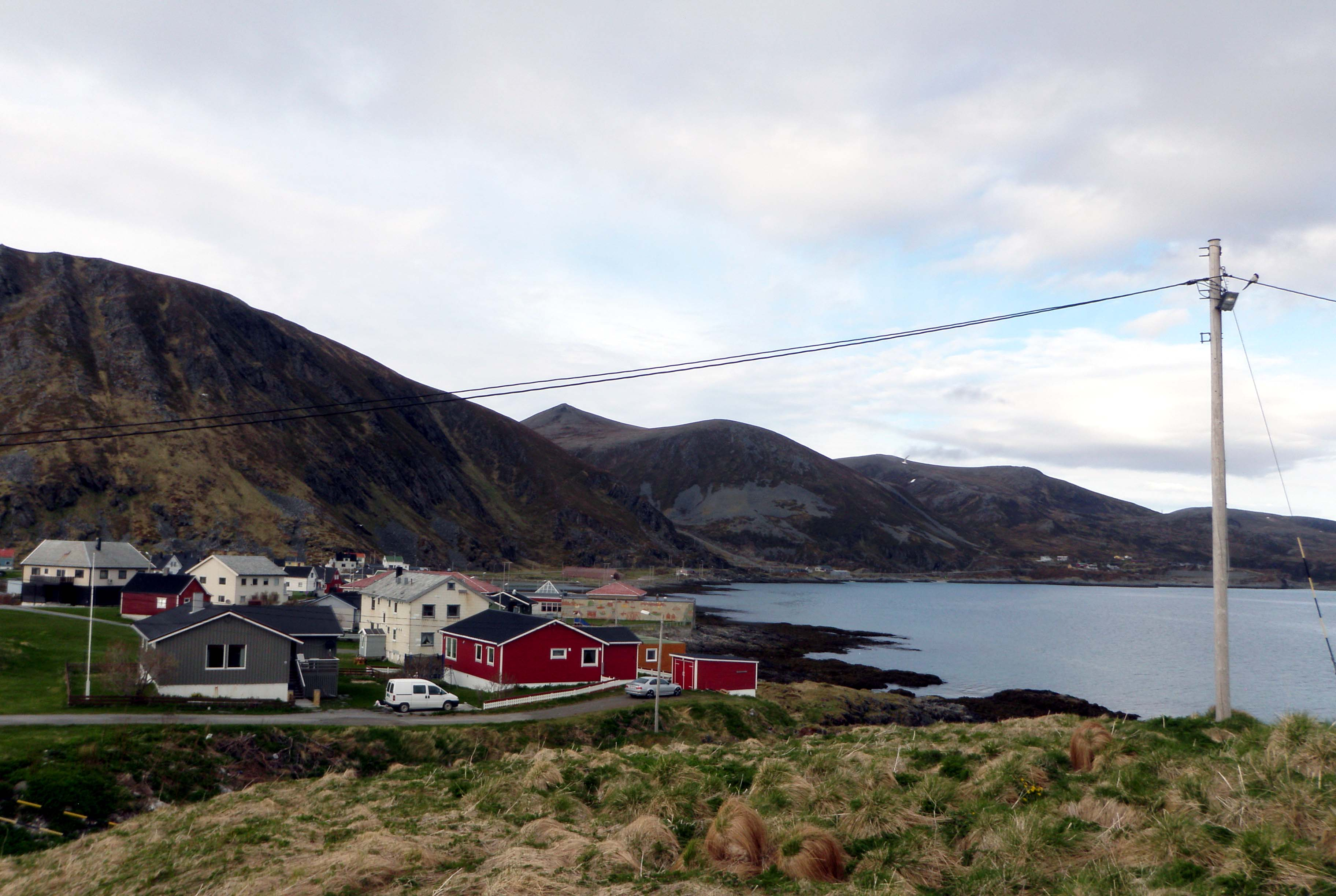 View of the eastern side of the village of Sørvær, in Hasvik, Finnmark, Norway. Photo taken from Sørvær Chapel.